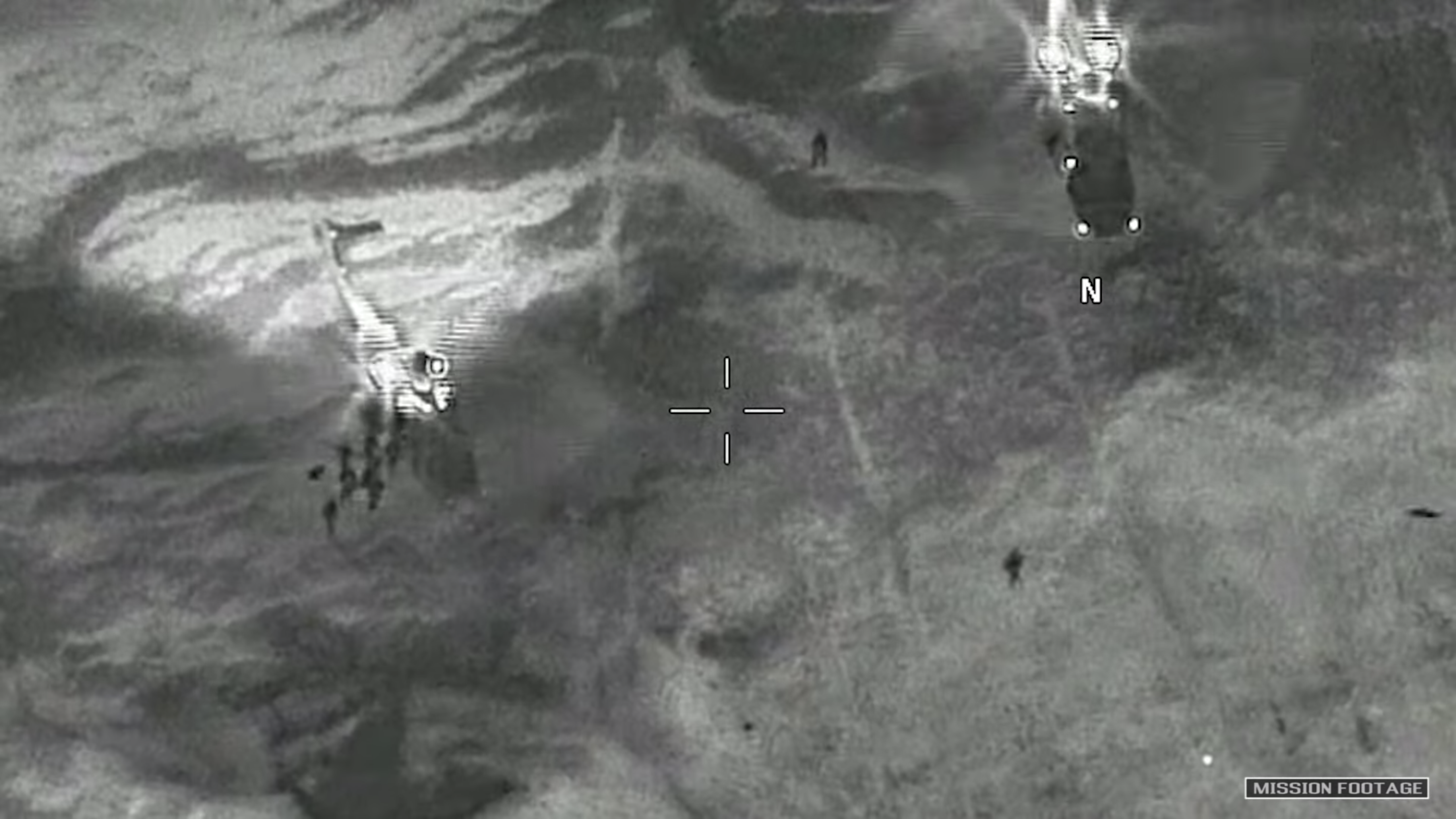 French Commandos and Nigeriens secure the landing site, allowing French helicopters to land and rescue the survivors